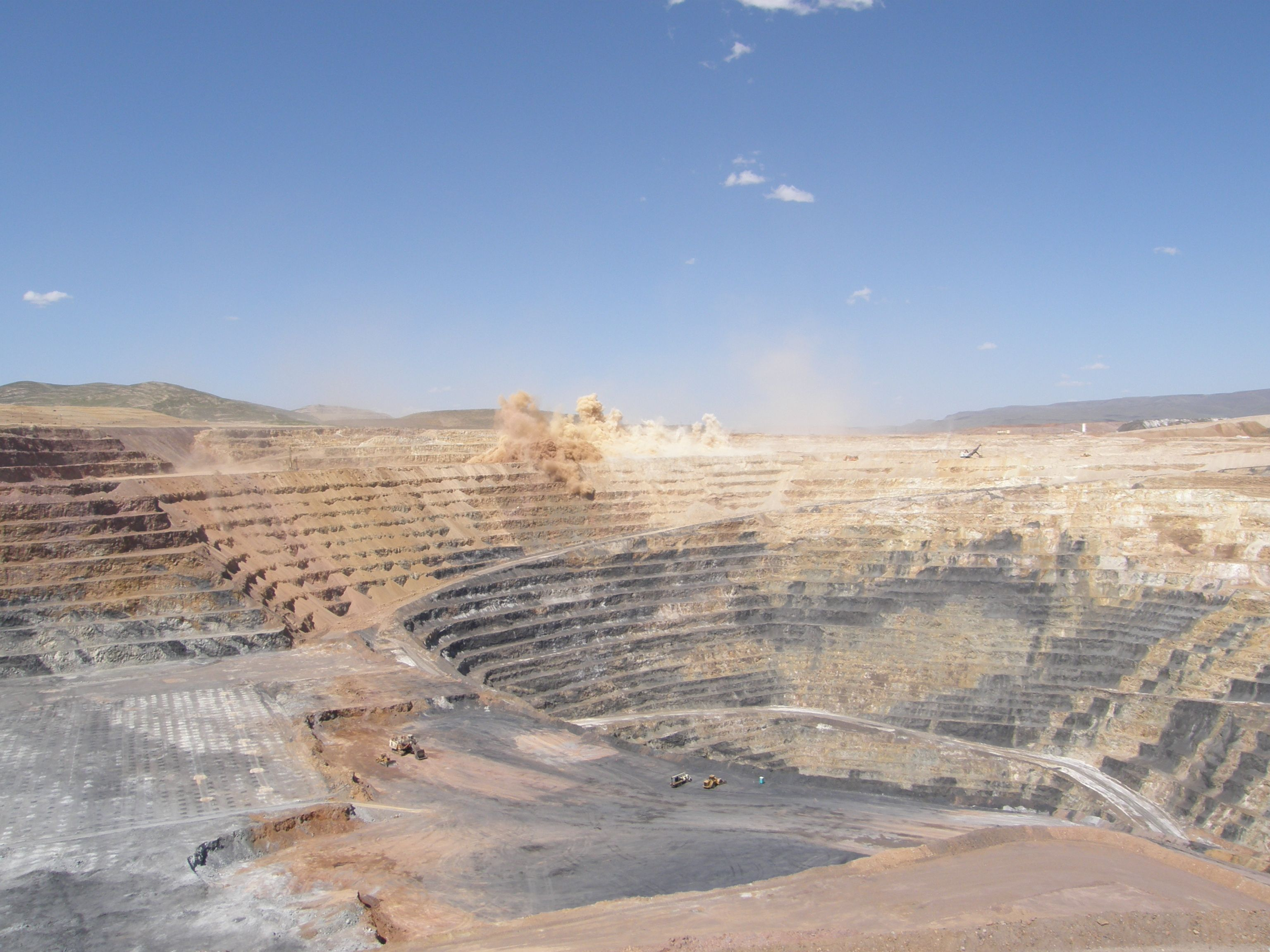 Twin Creeks gold mine, Nevada, USA; Carlin-style mineralisation in Mesozoic sedimentary rocks